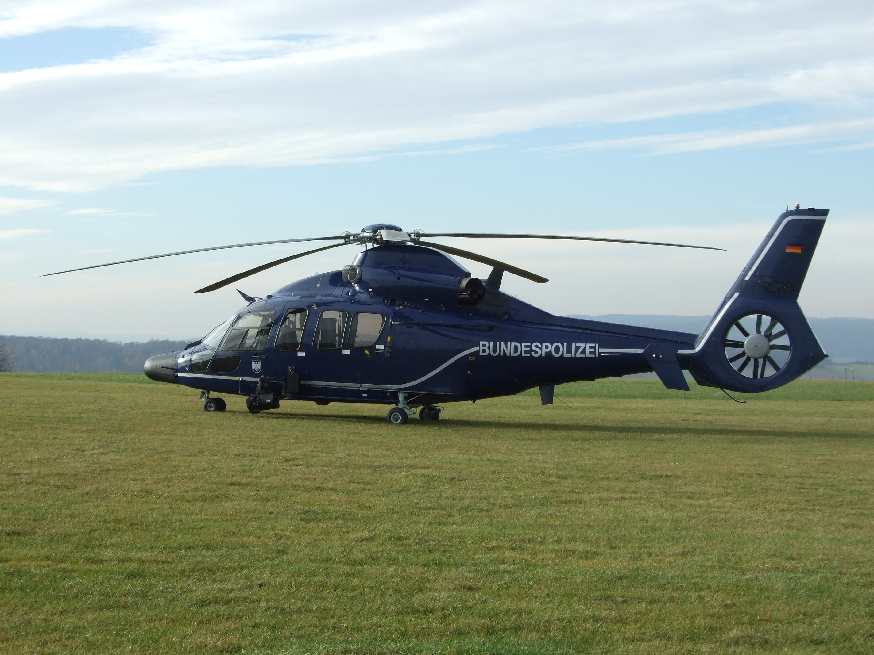 A helicopter type EC 155 "D-HLTO" of the German Federal Police at Bad Gandersheim Airport